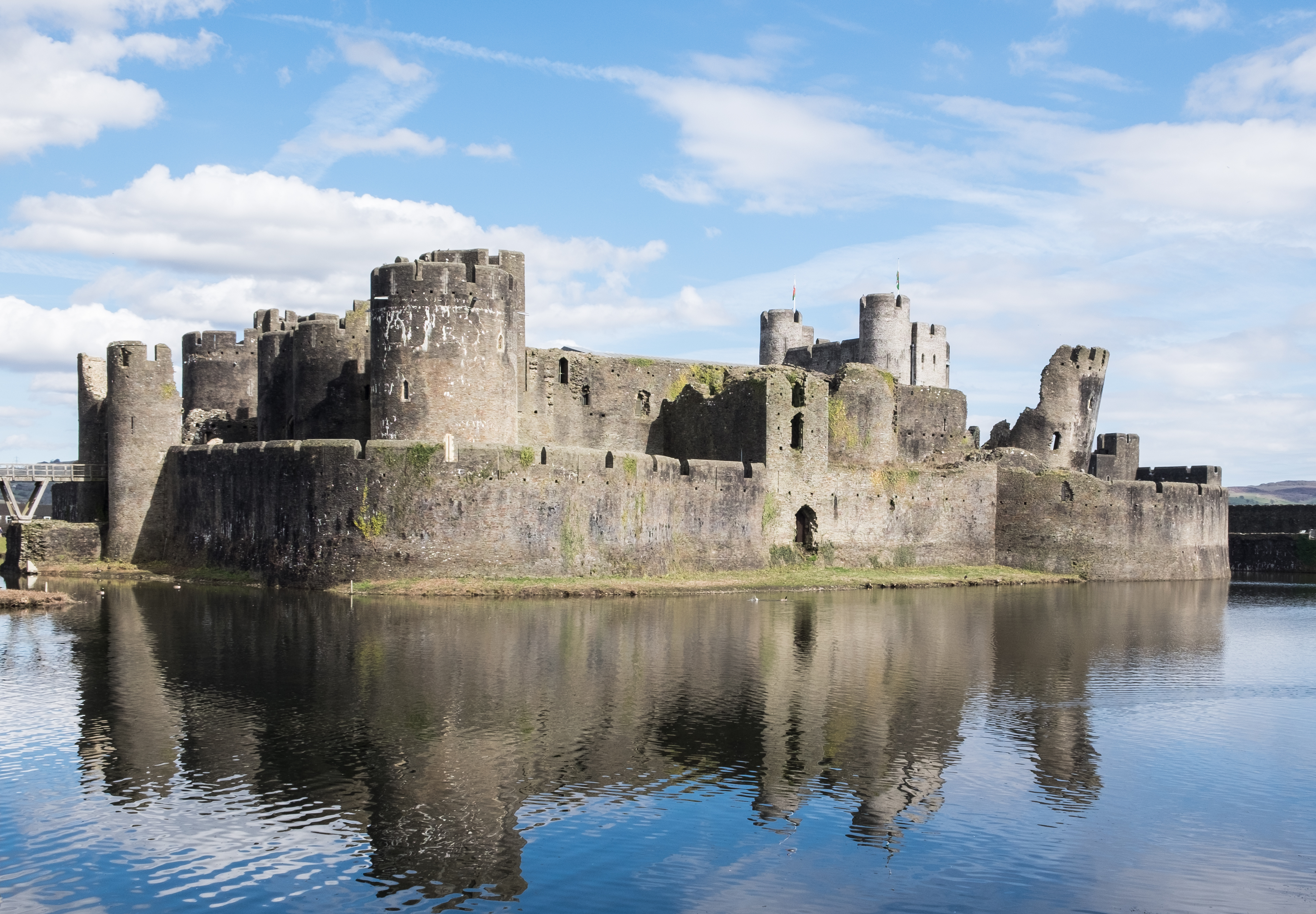 Caerphilly Castle, Wales. This is a grade I listed building in Wales.